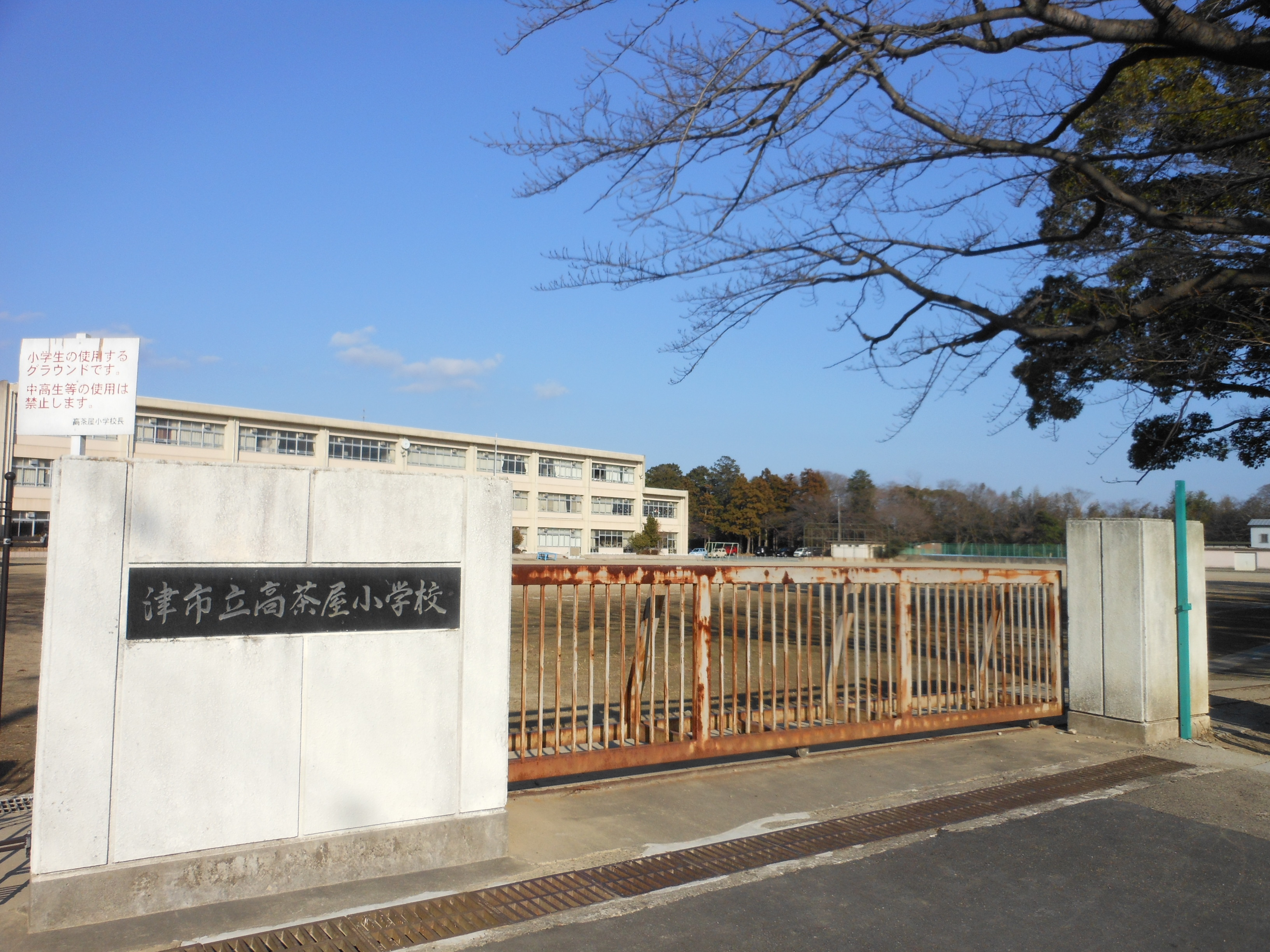 This is the Tsu city Takajaya Elementary School in Mie, Japan.